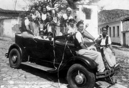 Micareta of Jacobina, 1935